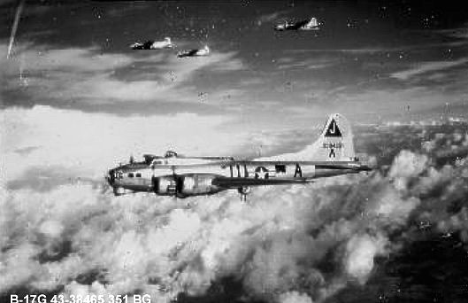 B-17G Serial 43-38465 "Favorite Lady" assigned to the 510th Bomb Squadron, 351st Bomb Group, RAF Polebrook England. This aircraft survived the war and returned to USA on 8 June 1945